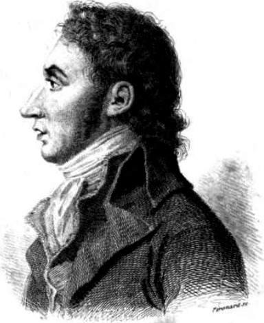 Jean-Lambert Tallien (1767-1820), French Revolutionist.